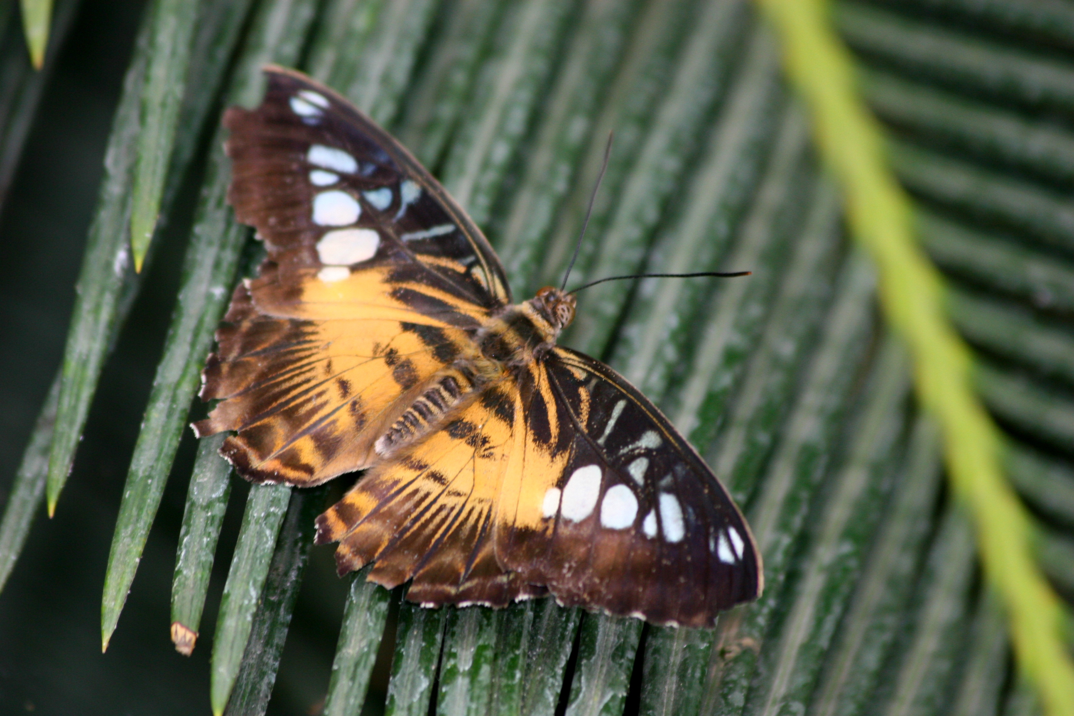 Parthenos sylvia butterfly in the Jardin de Papillones, Grevenmacher, Luxembourg